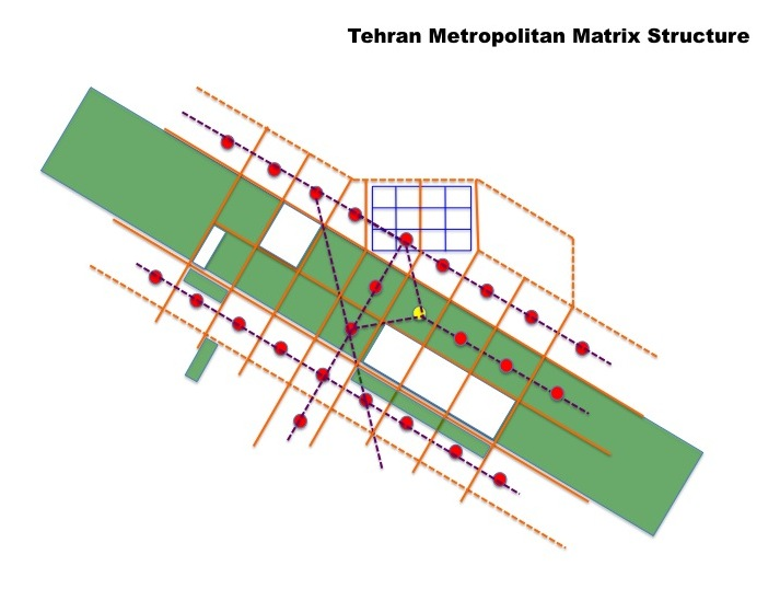 The methodology has been applied by the World Bank to numerous metropolises, including Tehran. The diagrammatic form is unique to each metropolis.